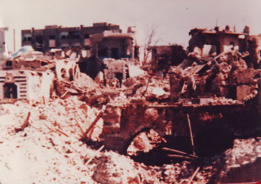 Photo of destruction in Hama following the Hama Massacre in 1982. Photograph has been taken on the eastern banks of the Orontes River, showing the destruction in al-Kilani.